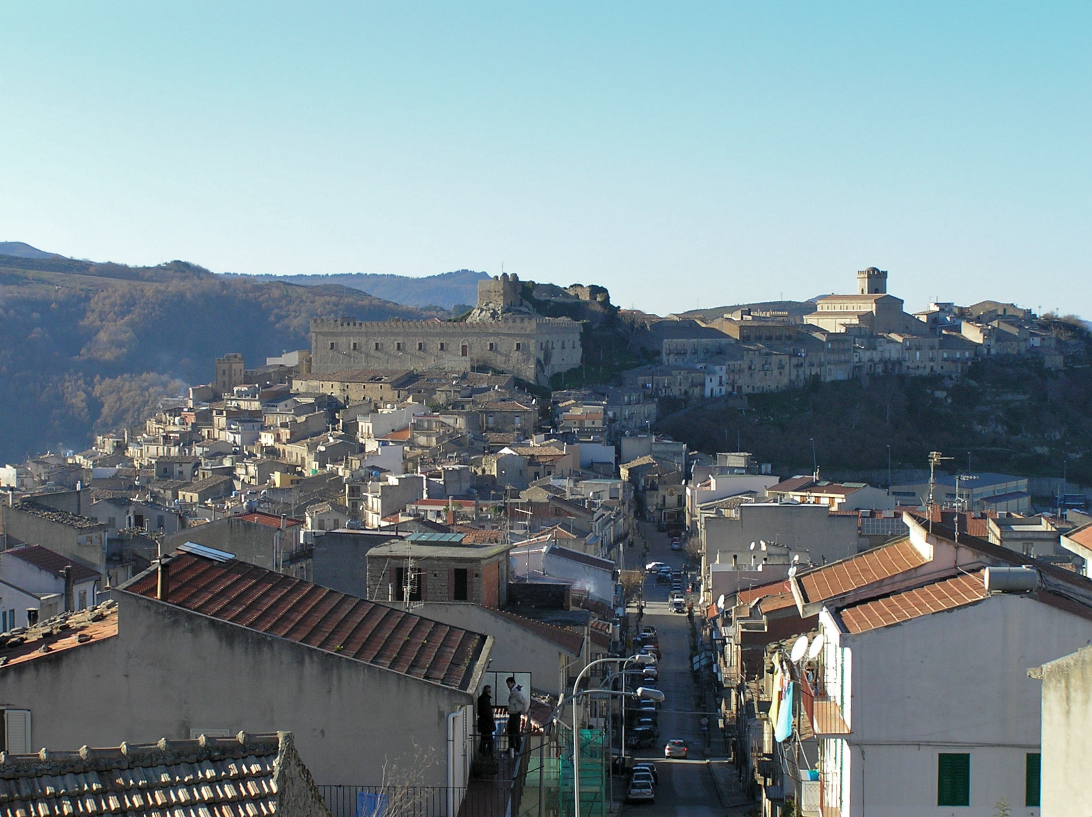 Panoramic view of Montalbano Elicona (ME), a small town in the north-east of Sicily.